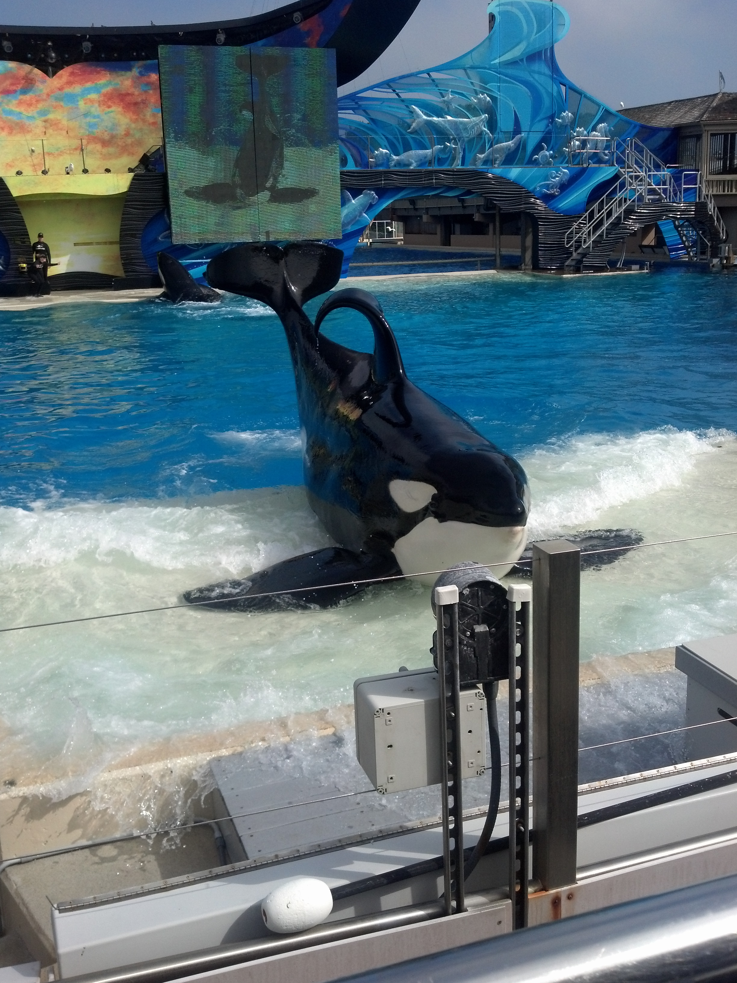 Ulises performing in the seasonal "Shamu Story" show at SeaWorld San Diego.